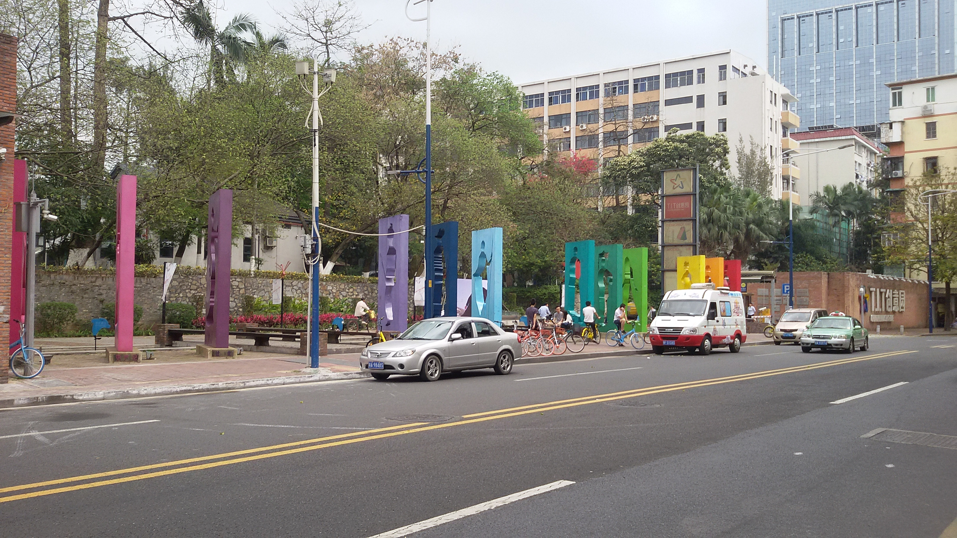 T. I. T. Creative Industry Zone 粵語: T. I. T. 创意园